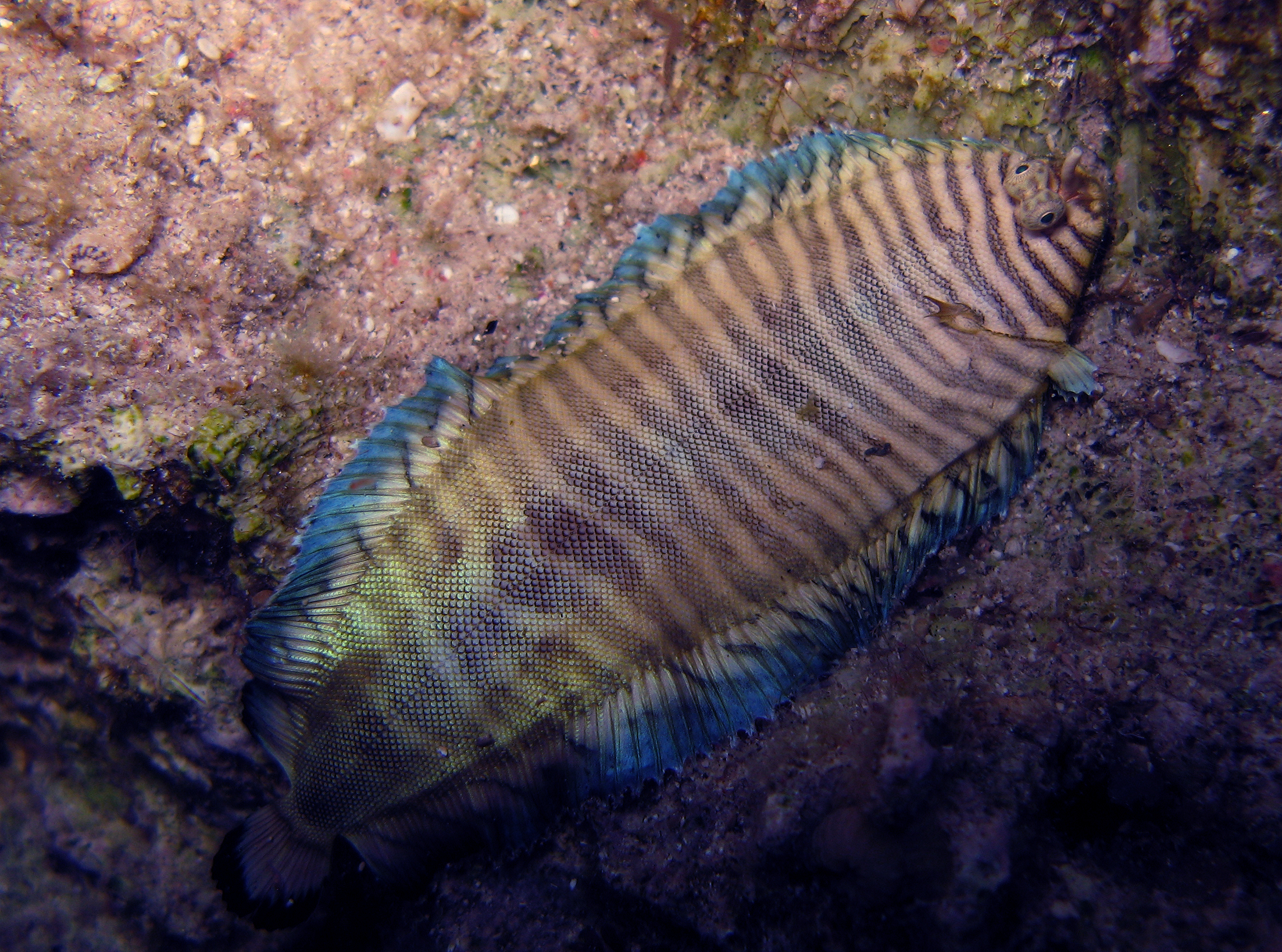 Blue Edged Sole - Soleichthys heterorhinos, Egypt-Sinai-Dahab